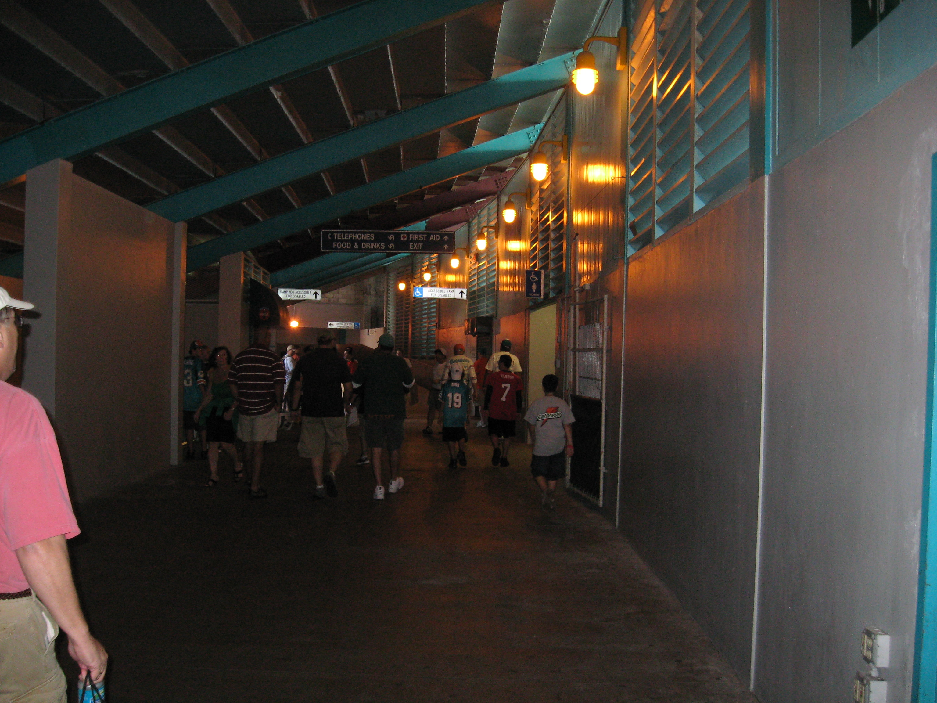 I took this pic as a memory since the O.B. will be demolished later in the year 2008.